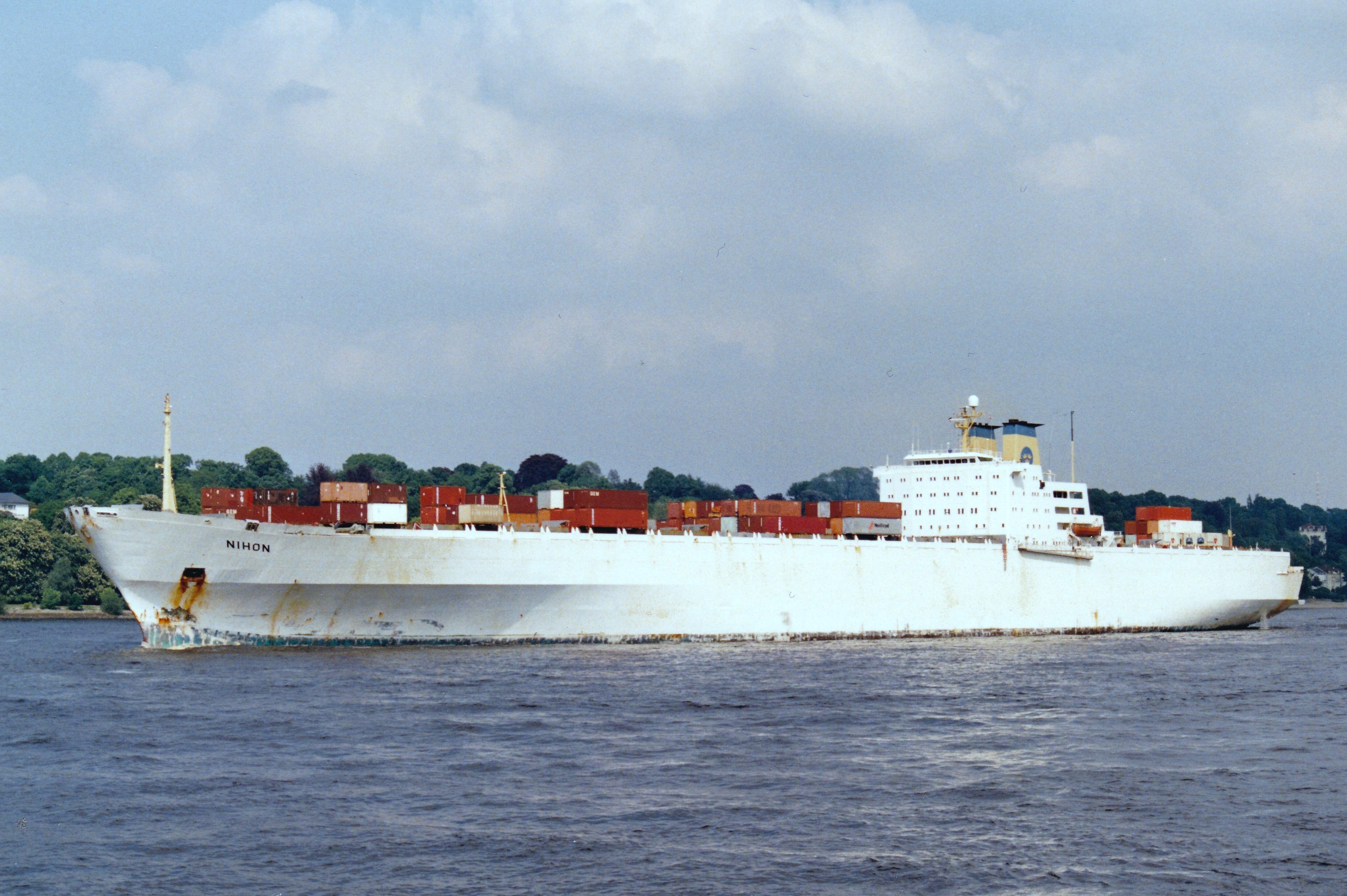 The container ship Nihon leaving Hamburg on May 11, 1990.